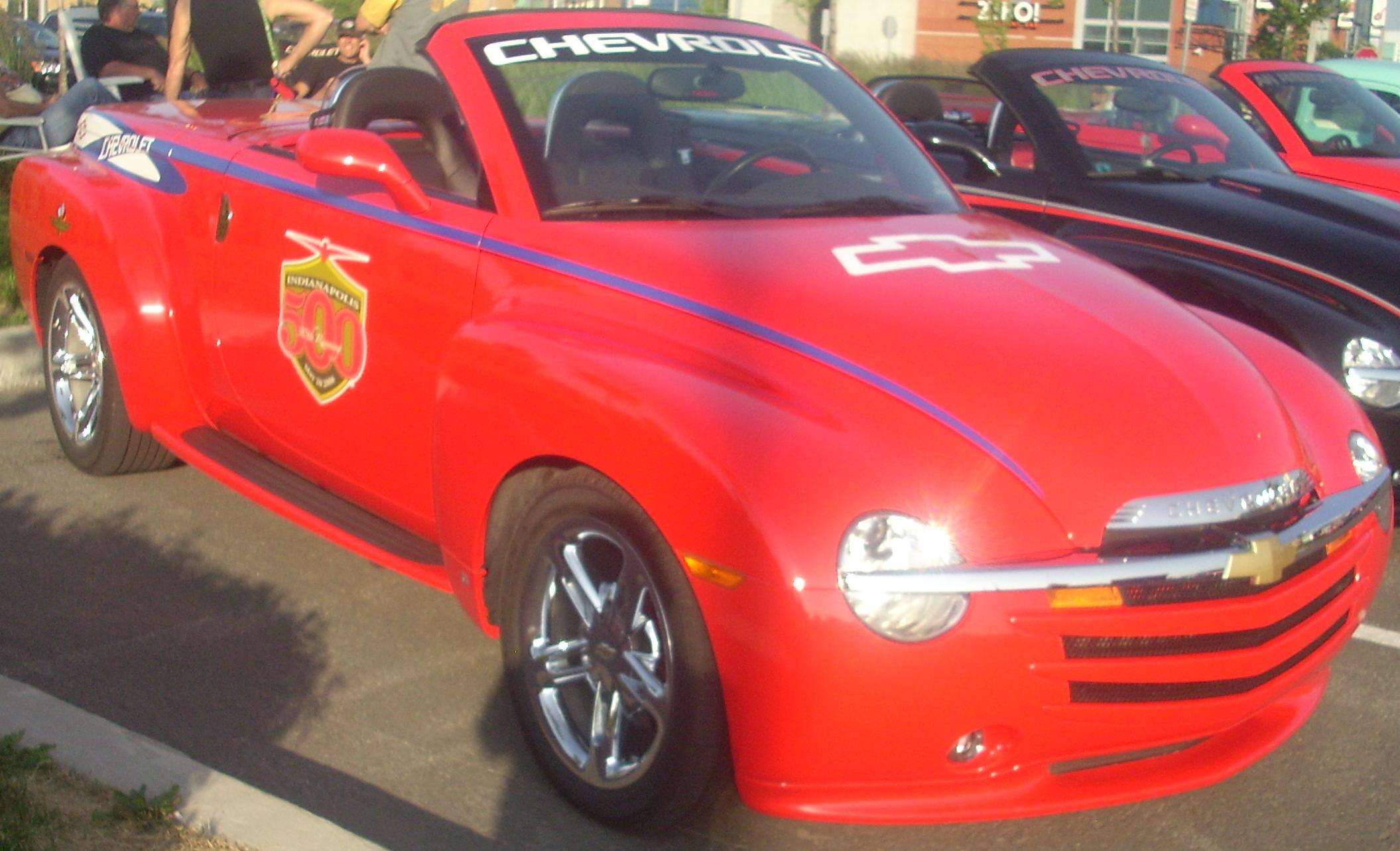 2006 Chevrolet SSR photographed in Laval, Quebec, Canada at Centropolis Laval.